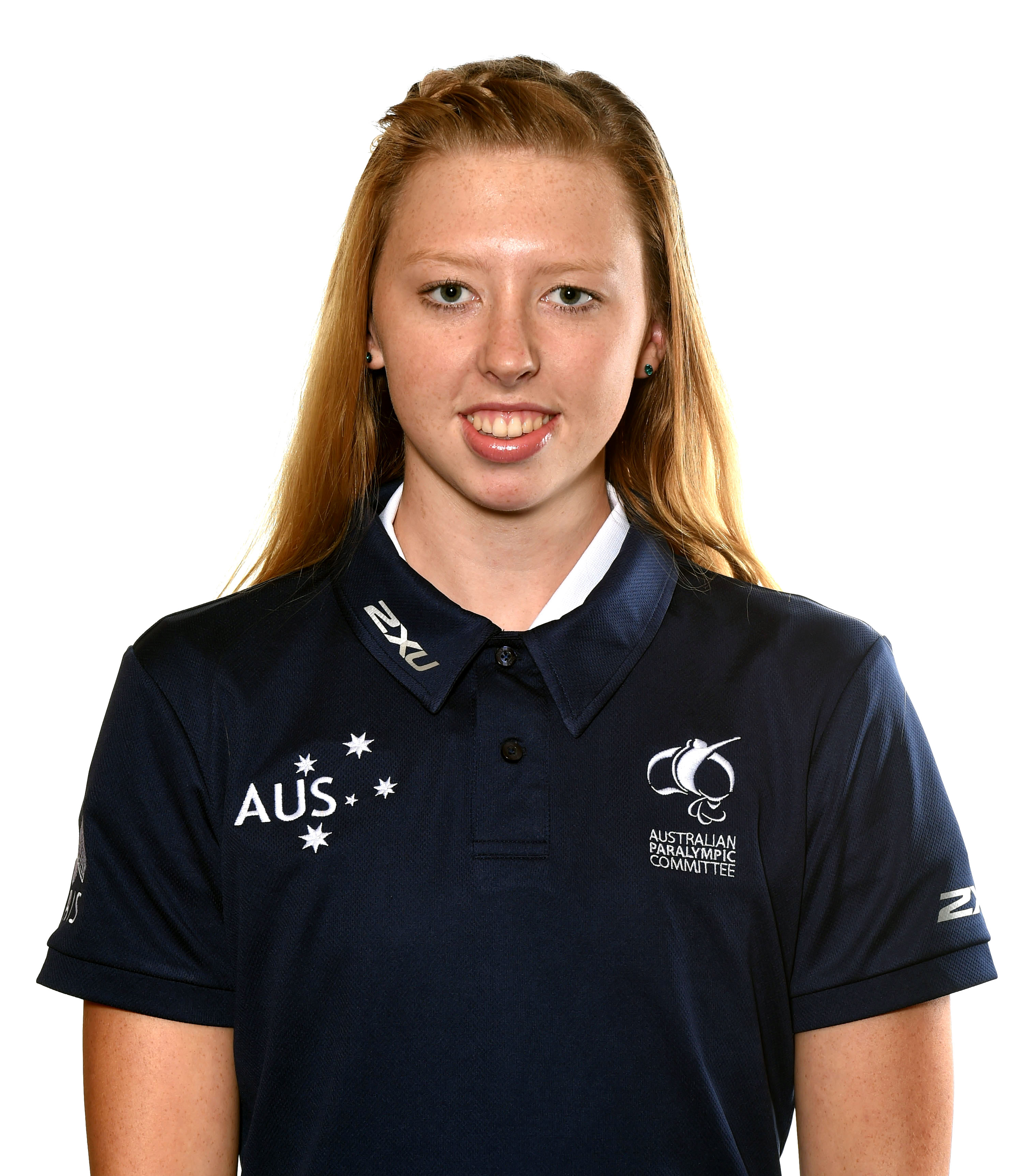 Media photo of 2016 Australian Paralympic Team Member Lakeisha Patterson